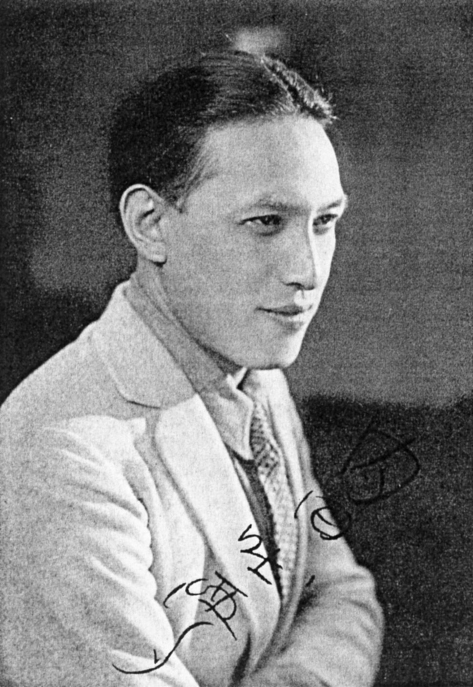 Photo of the film director Tomu Uchida.